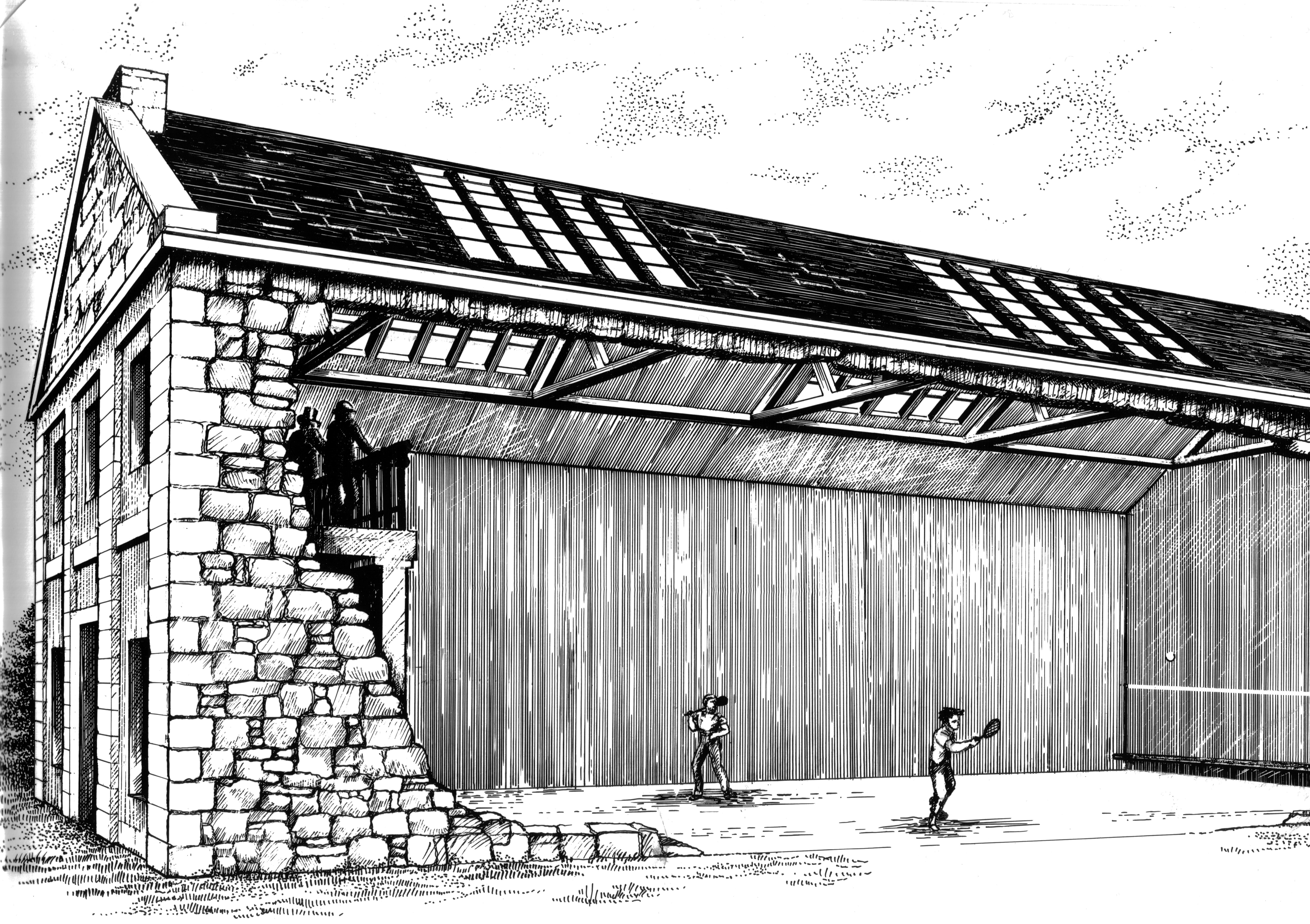 The Eglinton Rackets Hall in 1842. Eglinton Castle, Kilwinning, Scotland